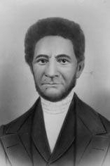 Portrait of John T. Hilton